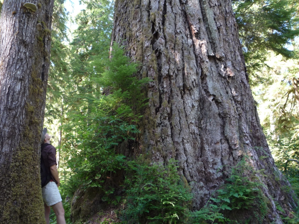 The Queets River Douglas-Fir is the largest Douglas-fir standing in the USA as of 2001. Along the Queets River trail in Olympic National Park, Washington State, USA.